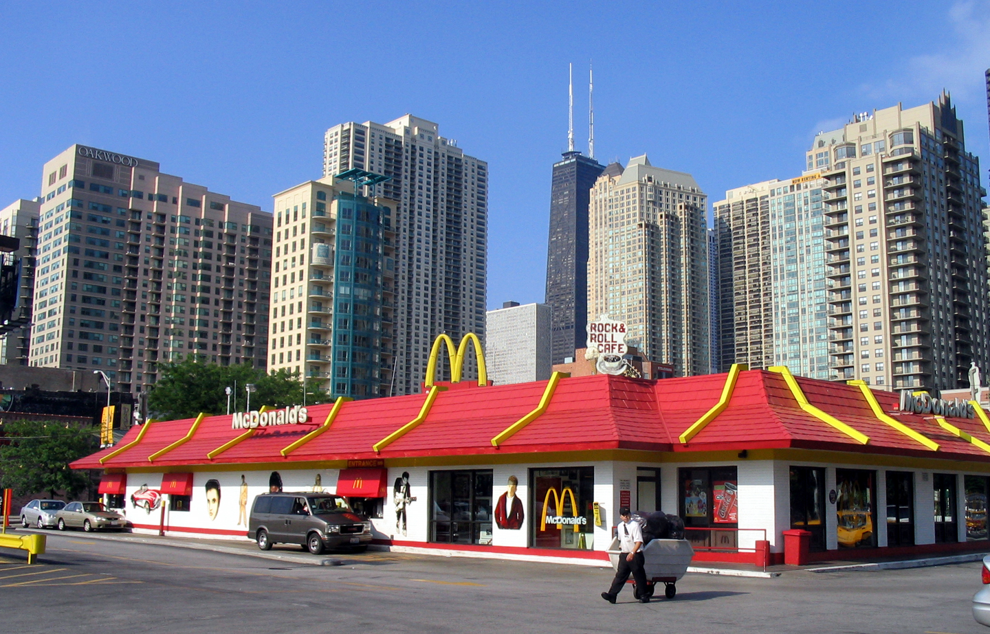 Pre-demolition Rock & Roll McDonald's Picture used with the following consent granted on 1/16/07 from Lynn Becker I am granting you permission to use the following images according to the GNU Free Documentation License: and On January 18, 2007 Lynn Becker kindly provided this higher resolution image version.